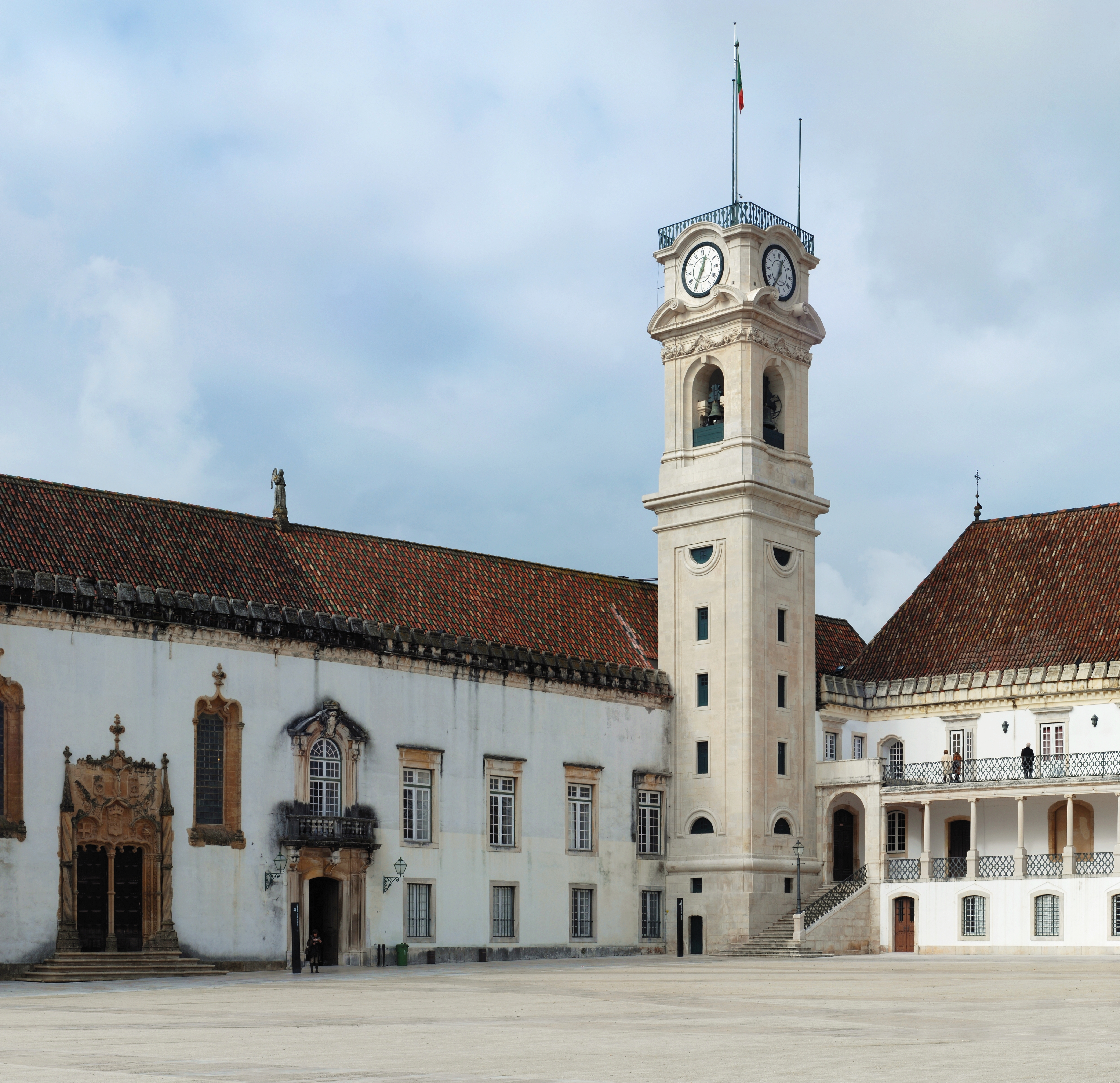 The tower of the University of Coimbra, Portugal. At left, the manueline door to the Chapel of Saint Michael